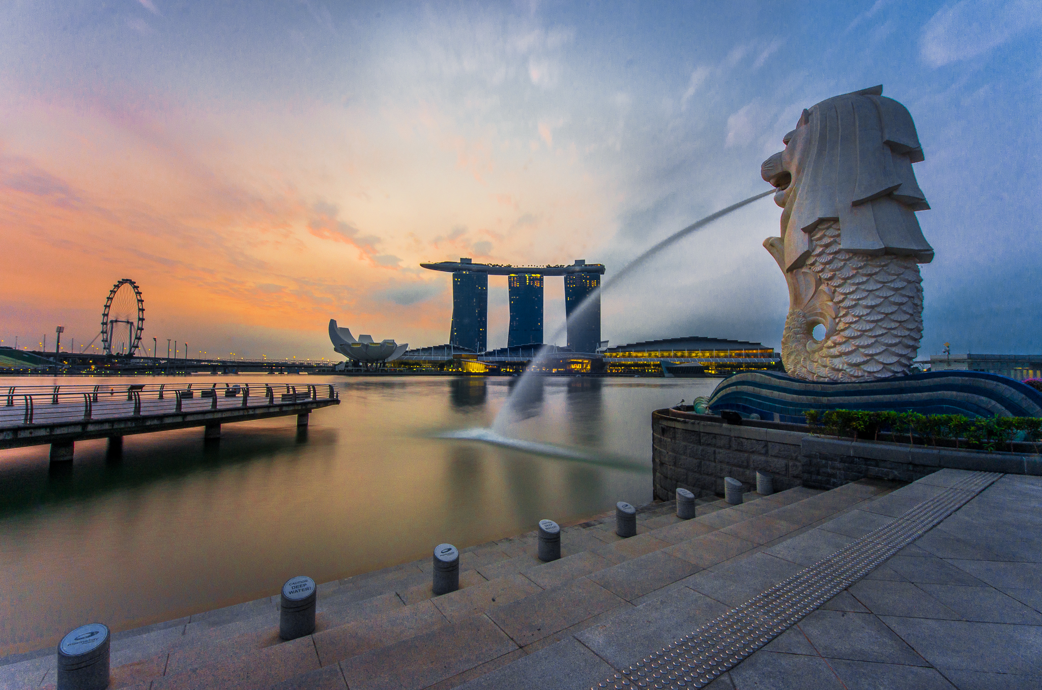 A rear view of the large Merlion statue at Merlion Park, Singapore, with Marina Bay Sands in the distance.